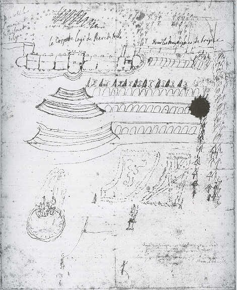 Sketch for the palace of Sanssouci, made by Friedrich II. of Prussia.